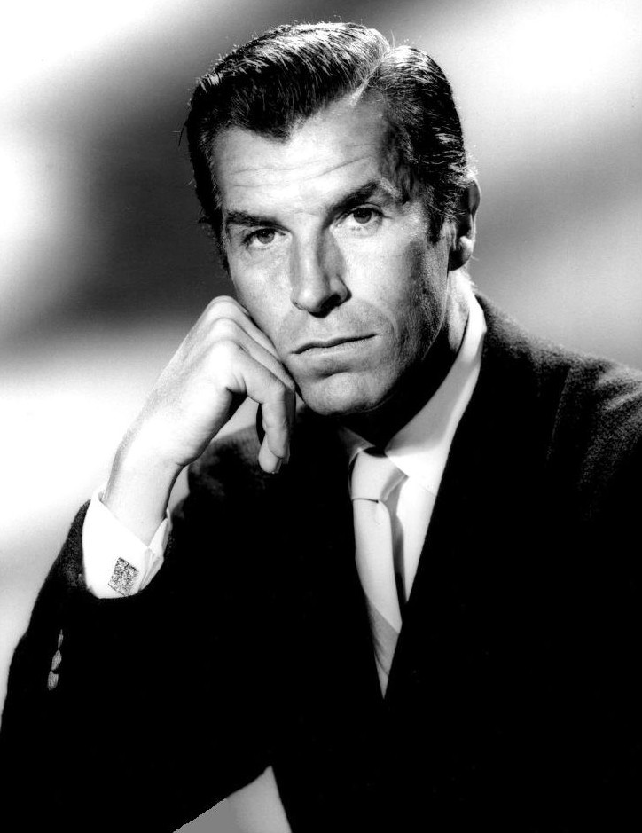 Photo of Fernando Lamas from an appearance on the television program The Pat Boone Show.